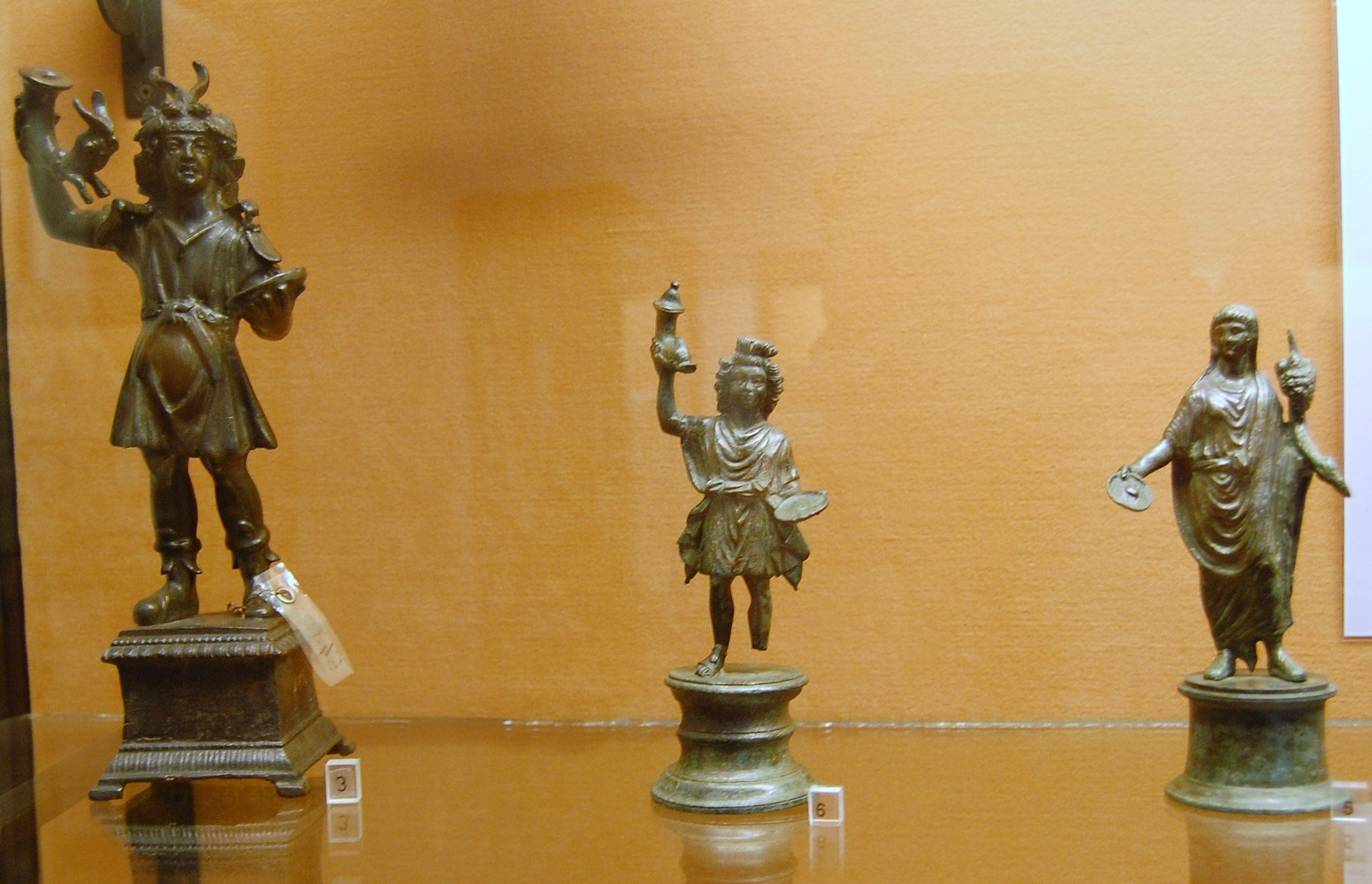 Lares - Naples National Archaeological Museum